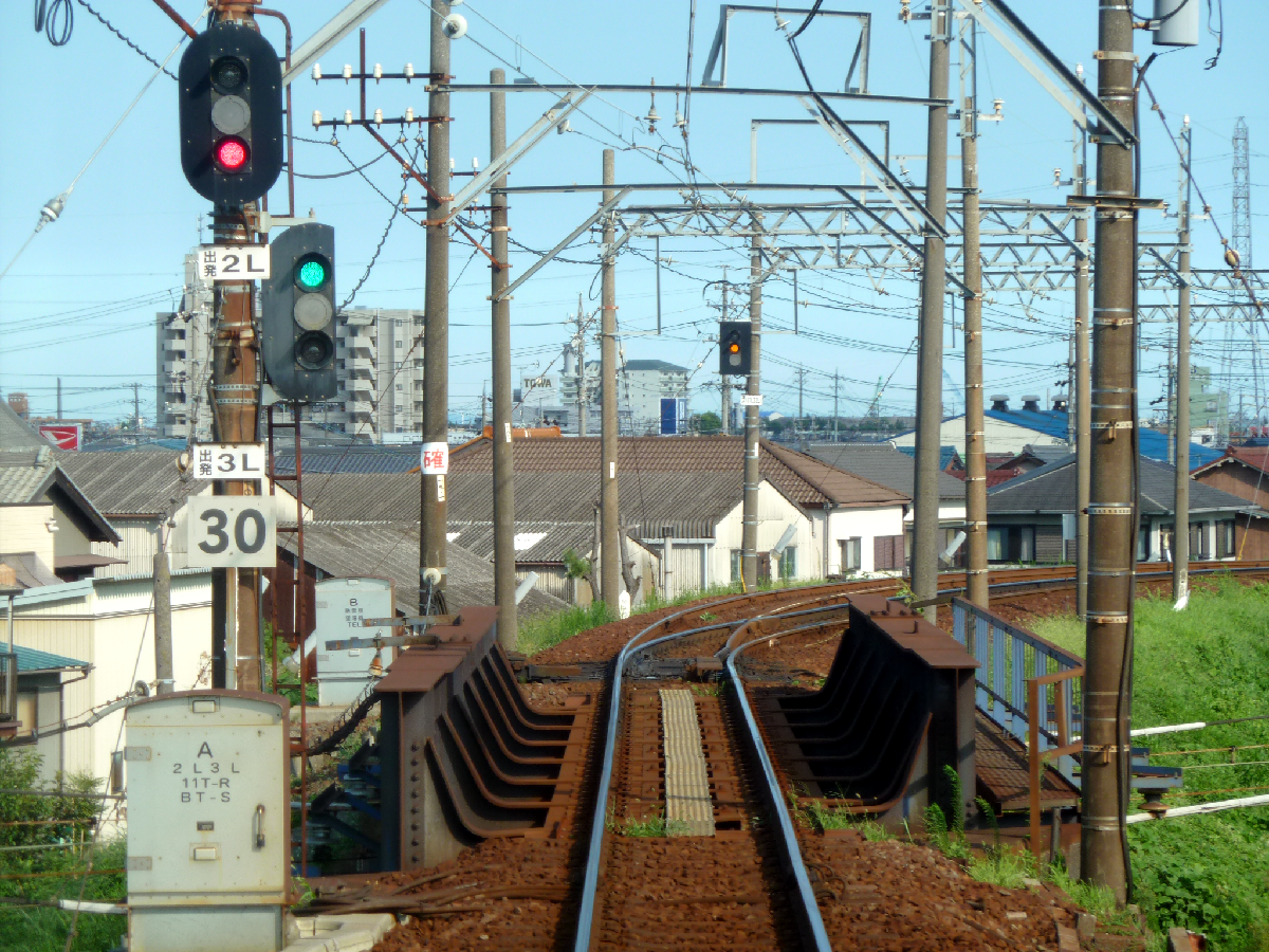 Sangi-asake signal station.